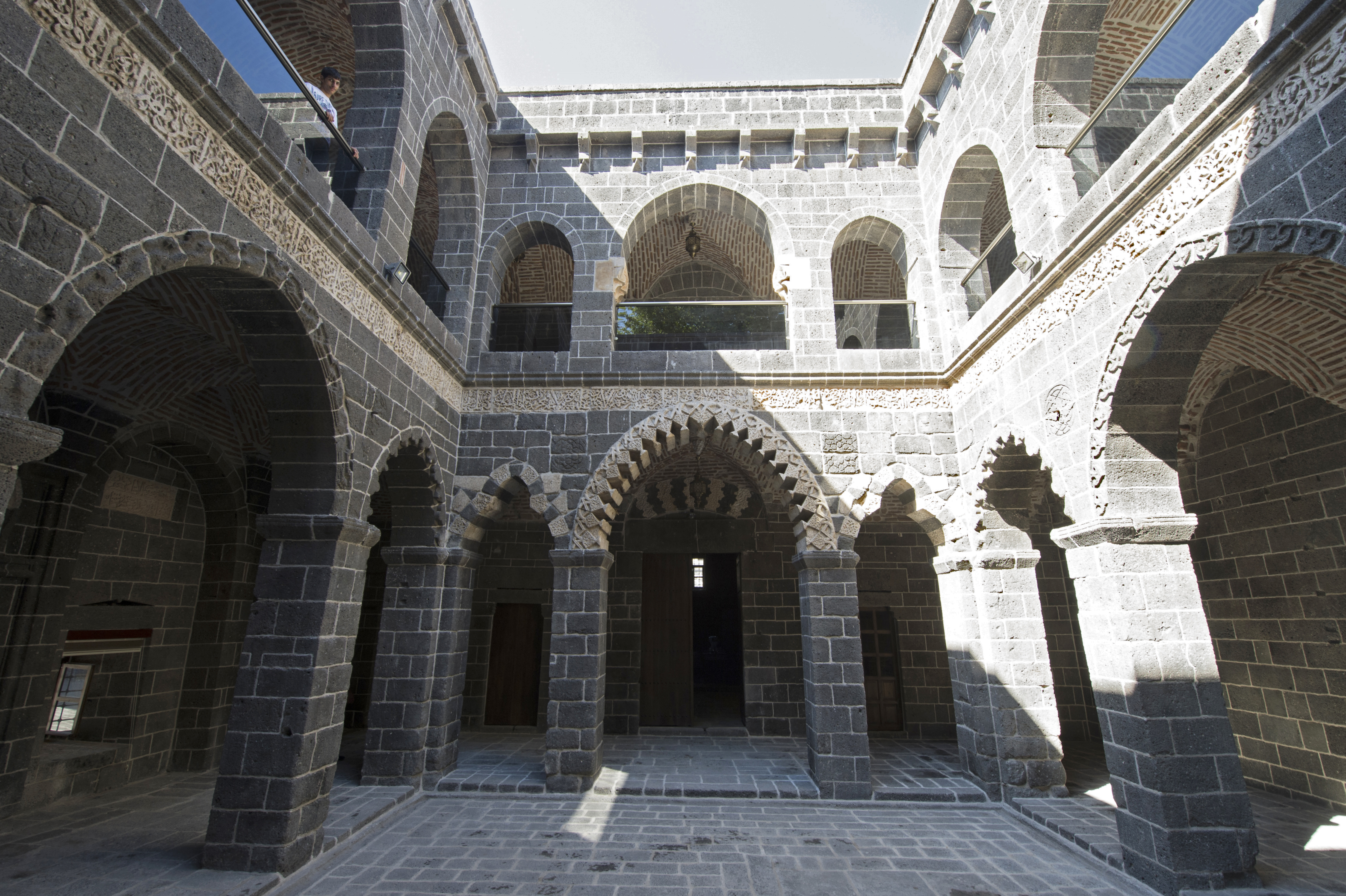 When entering the courtyard of the Great Mosque from the main street, the mosque is to one's left, to the right there is an other important building, the Mesudiye Medresesi (1193), which again has spolia and new architectural stonework integrated in its structure.